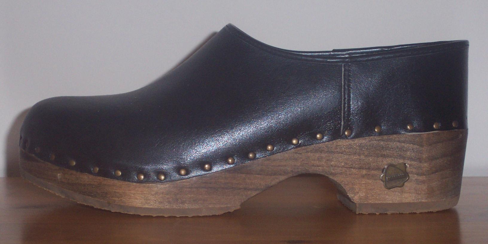 Closed clog with wooden sole and leather upper, made by the German company Berkemann. Model Allround-Toeffler. Colour wood and black.